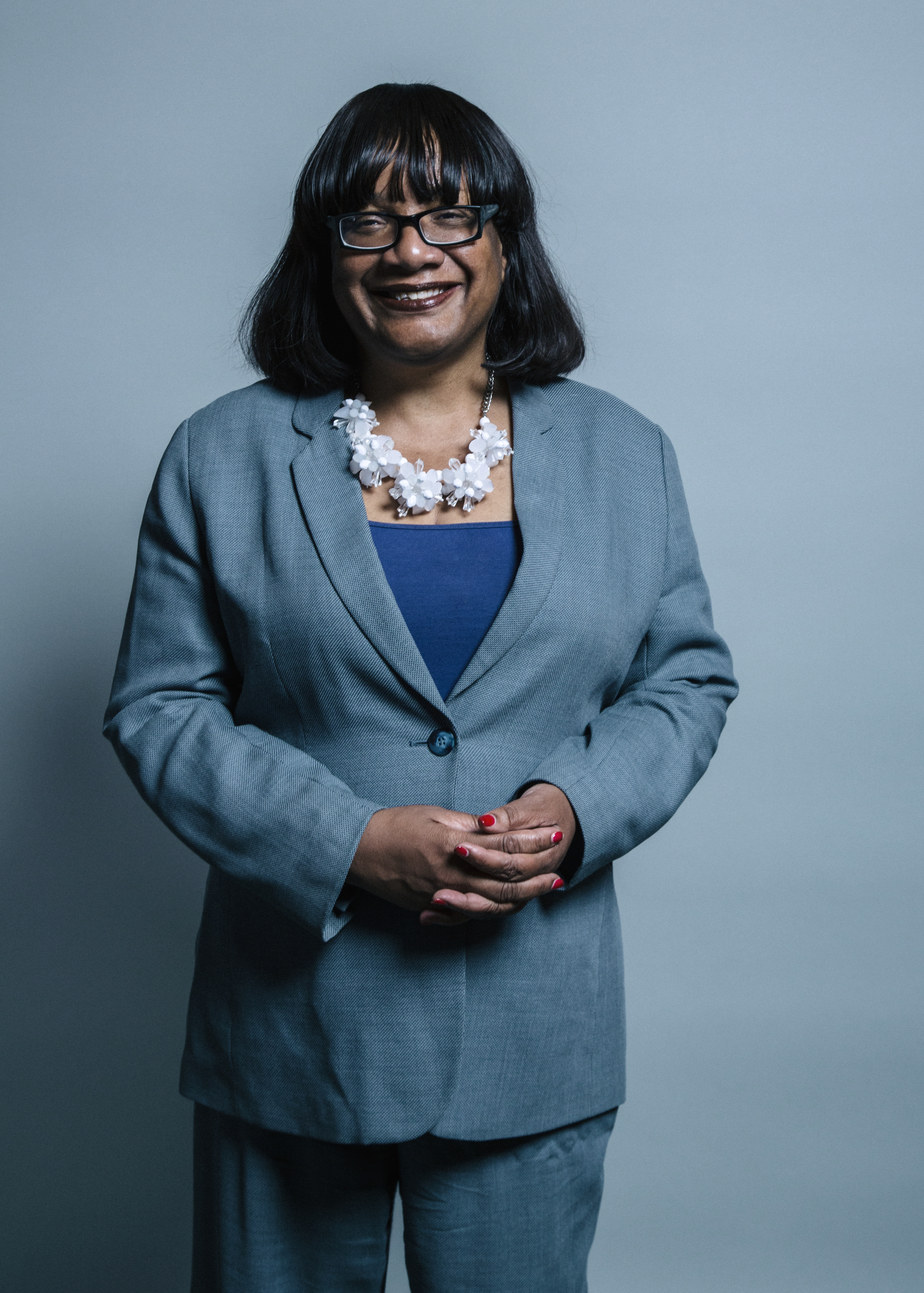 Official portrait of Ms Diane Abbott